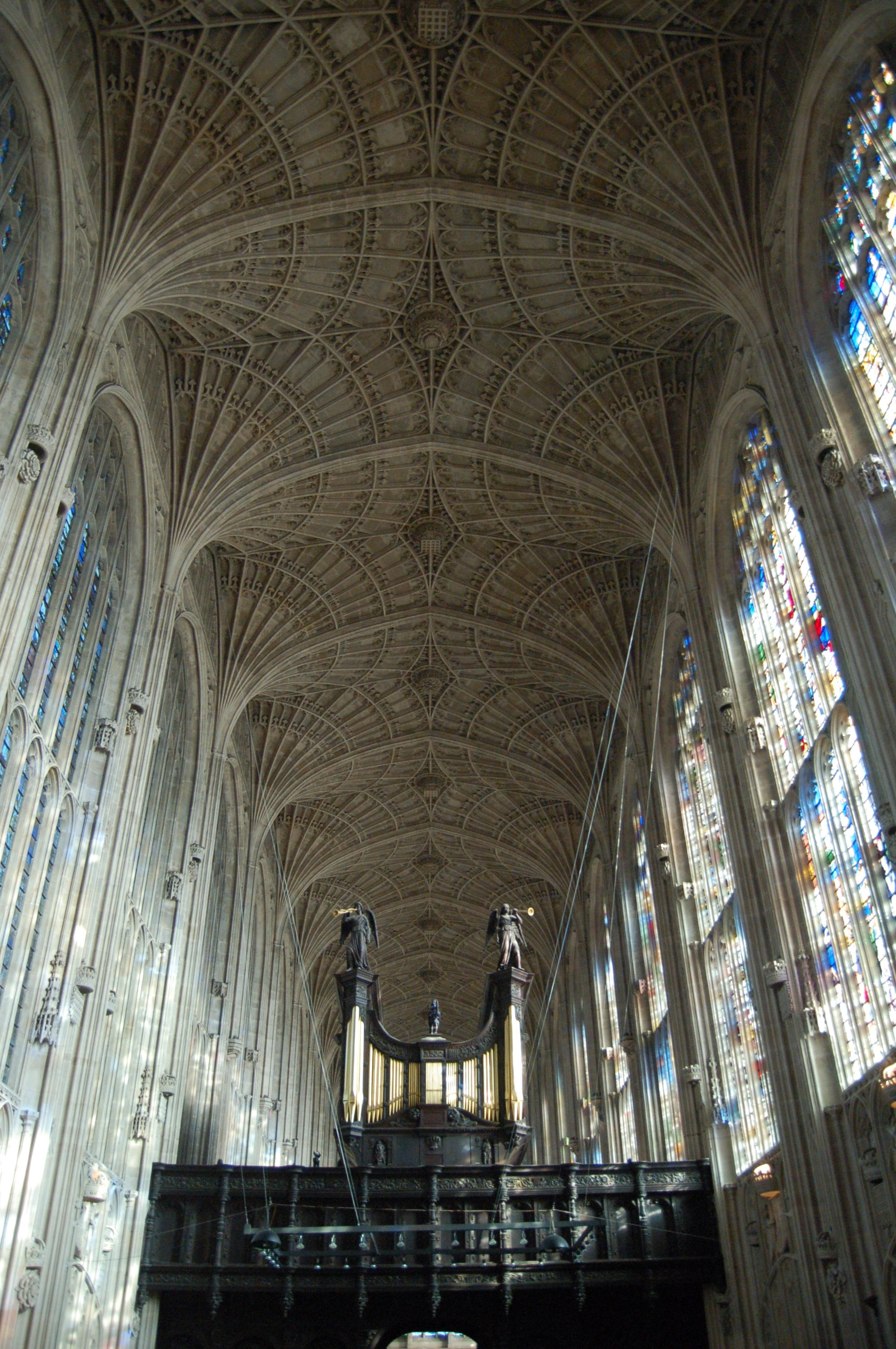 The organ and roof of King's College Chapel, Cambridge